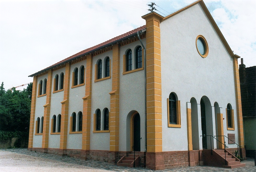 Former Synagogue of Leutershausen